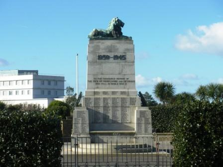 The Morecambe and Heysham War Memorial on Moreambe promenade